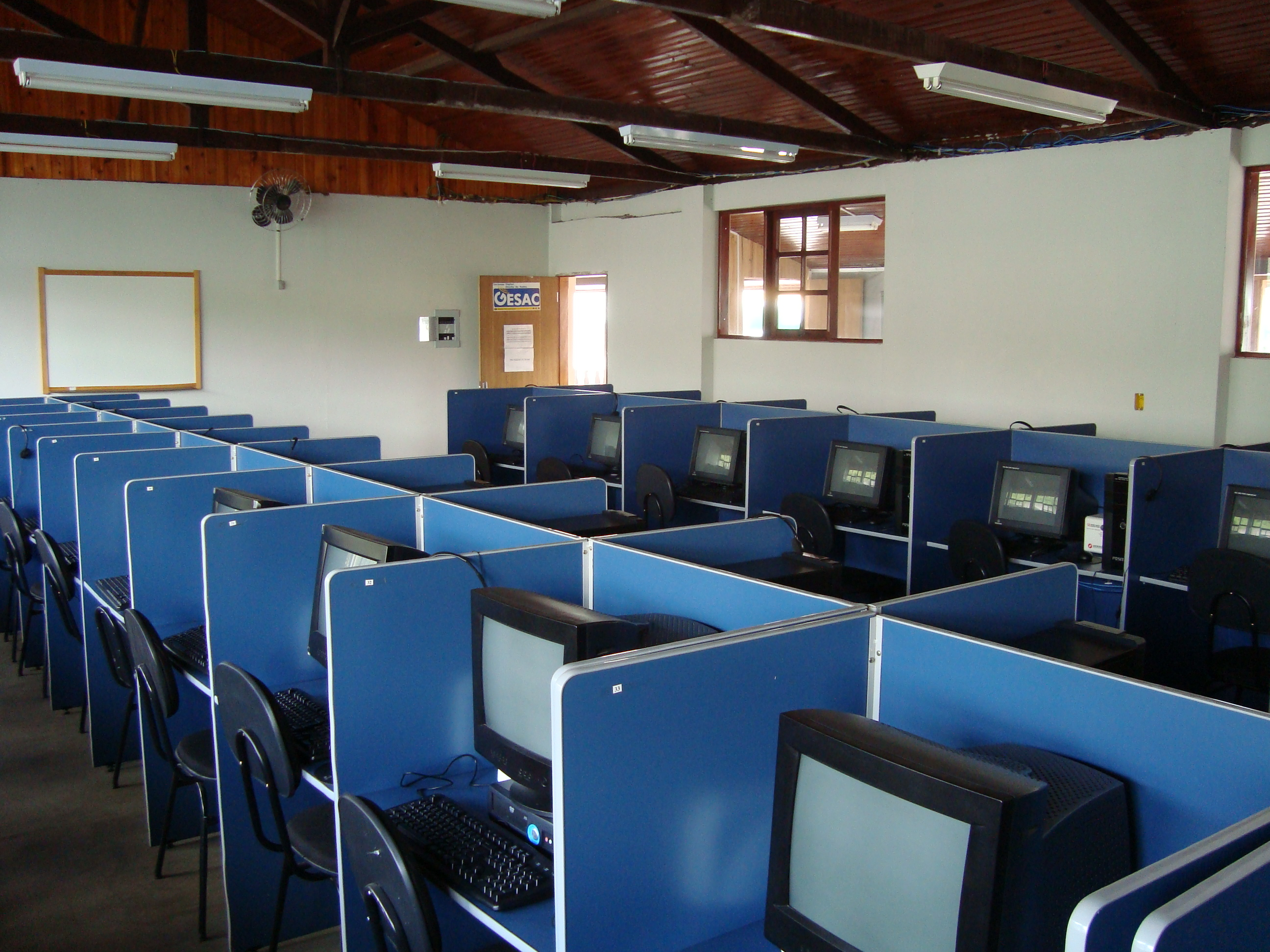 Computer lab in Itamonte, Minas Gerais, Brazil